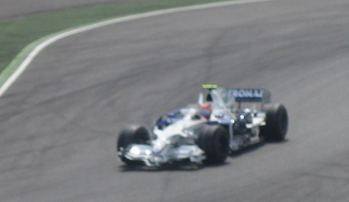 Robert Kubica driving for BMW Sauber at the 2008 Spanish Grand Prix.